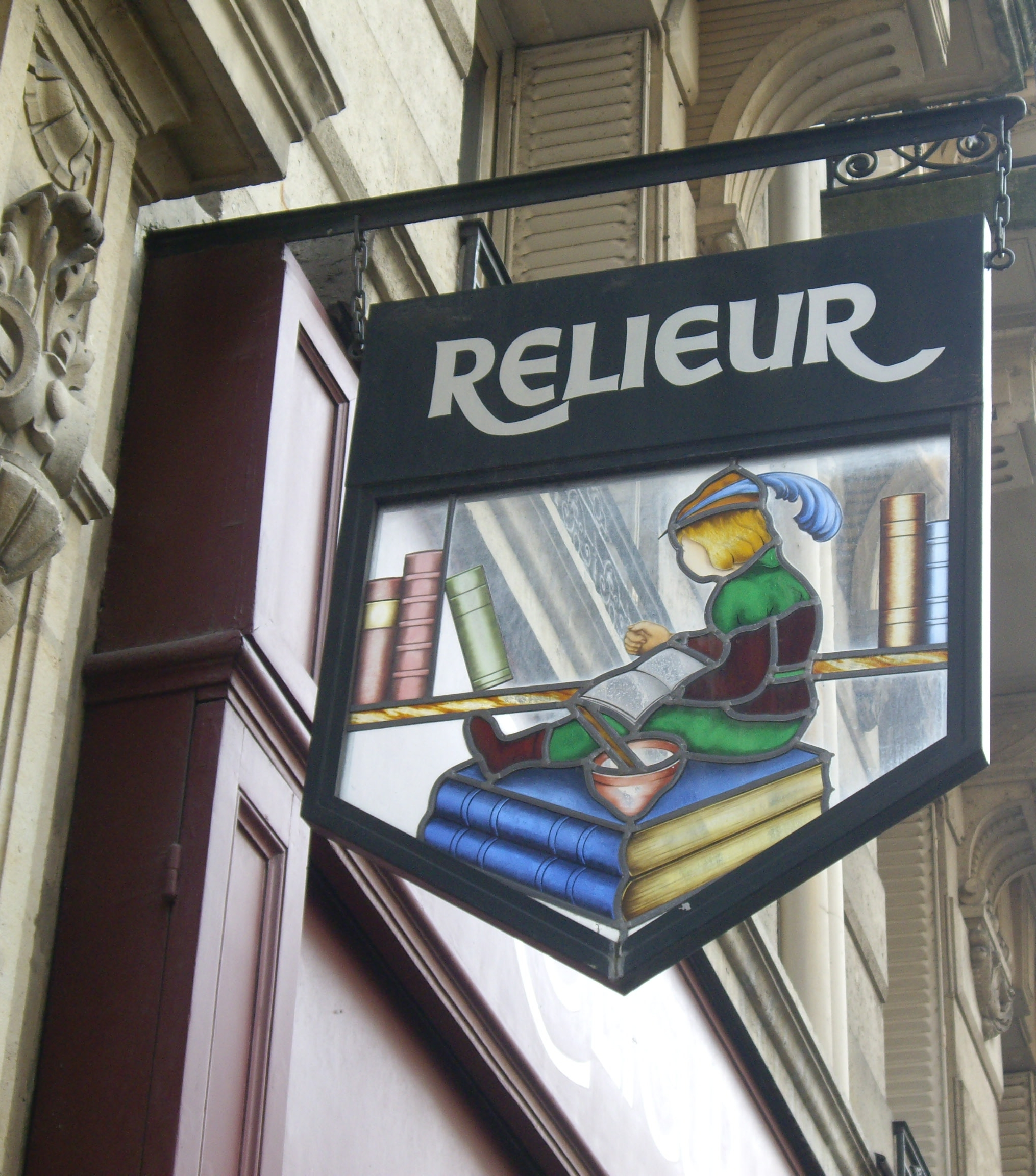 Bookbinder's sign in Rue de Bourgogne, Paris 7e.